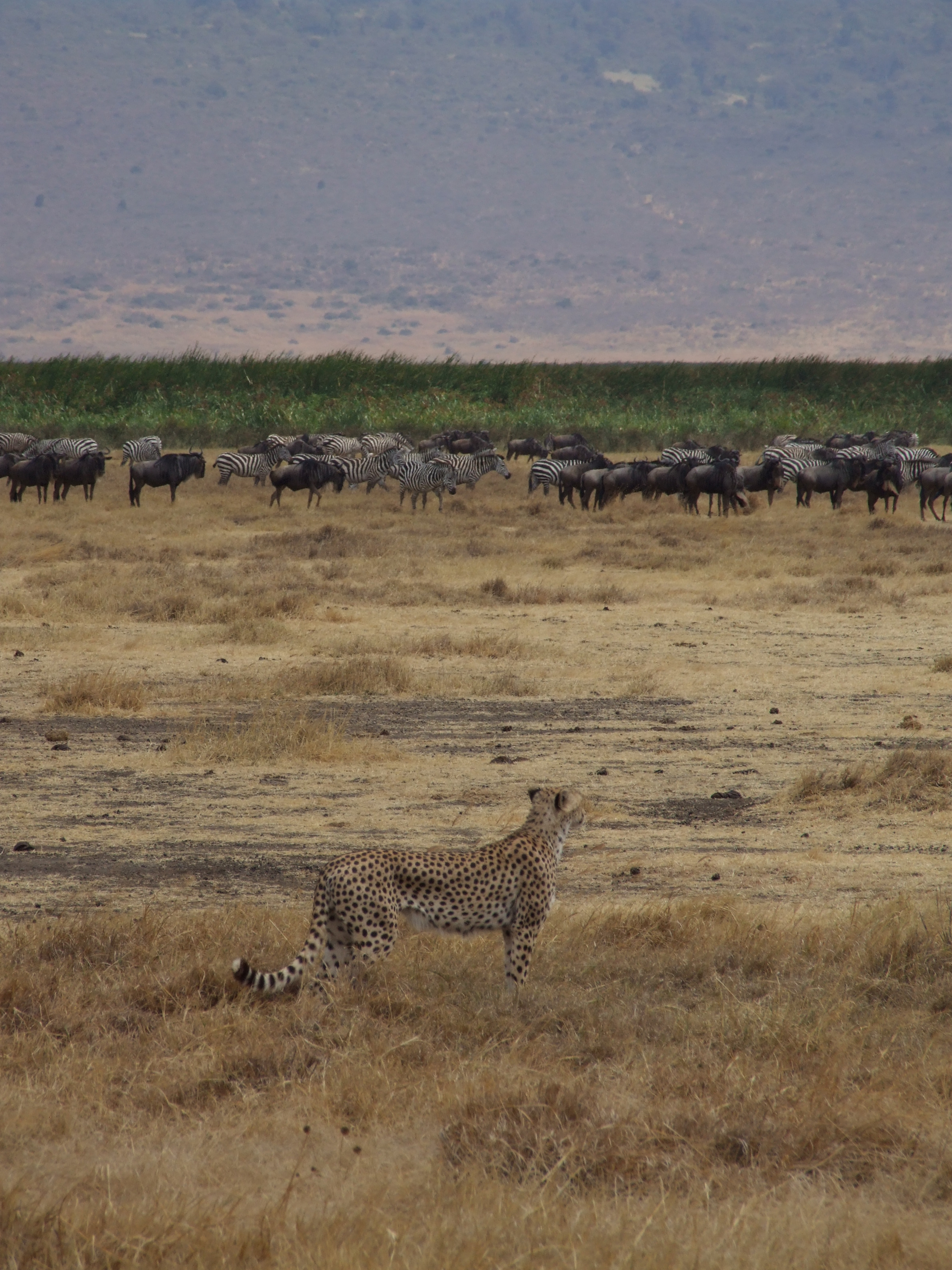 Cheetah in Ngorongoro